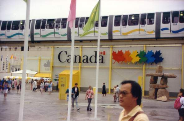 The Canadian pavilion at Expo '88 and the Expo Monorail ( this photograph was taken by Figaro )